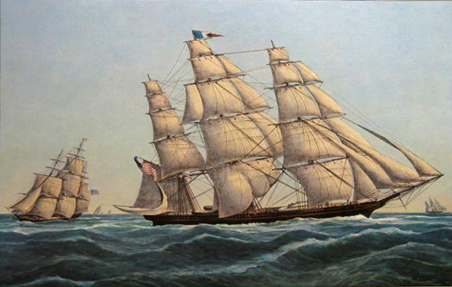 Clipper ship Sweepstakes, built in 1853 by Westervelt & MacKay in New York.